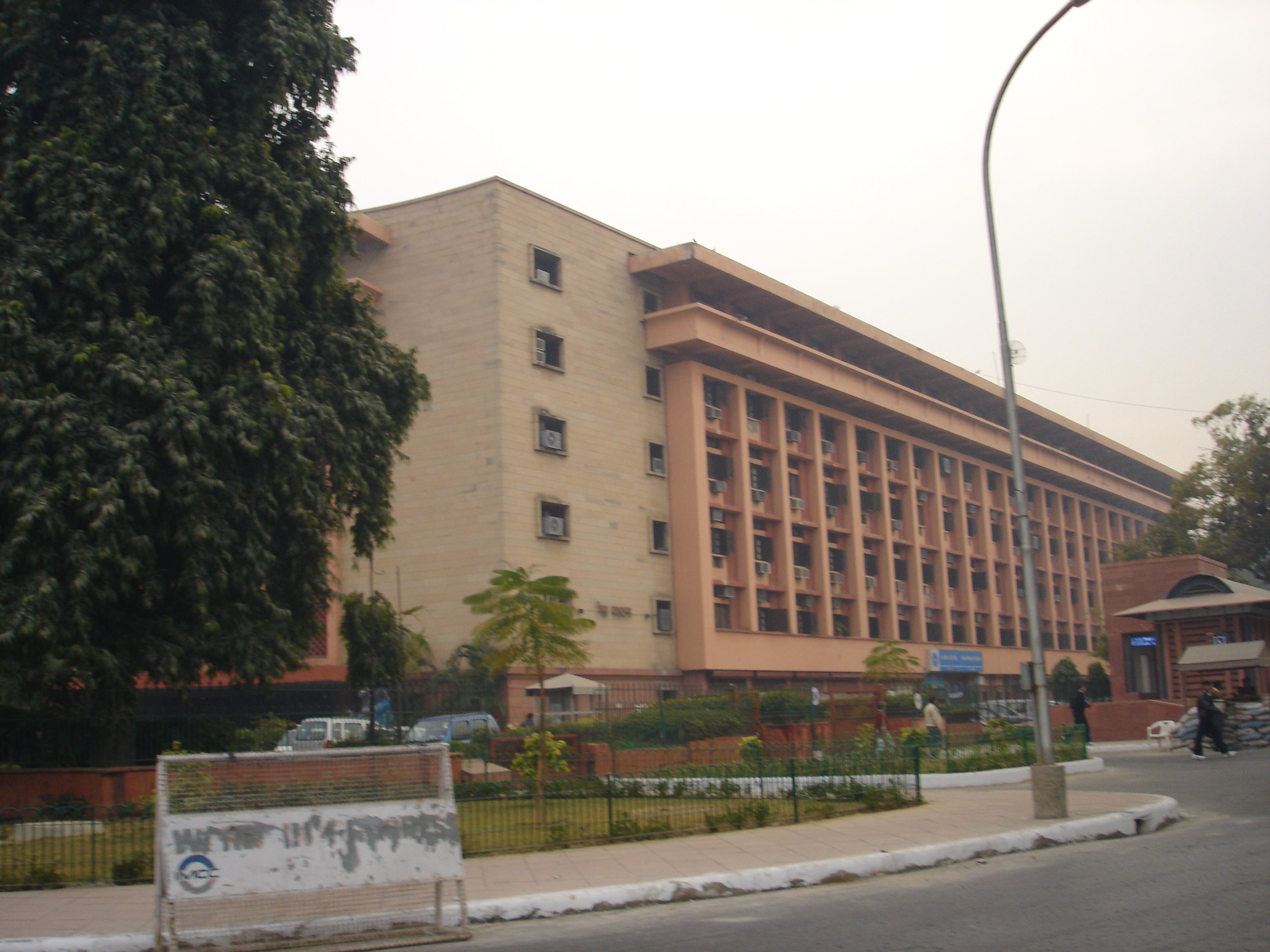 The Rail Bhavan